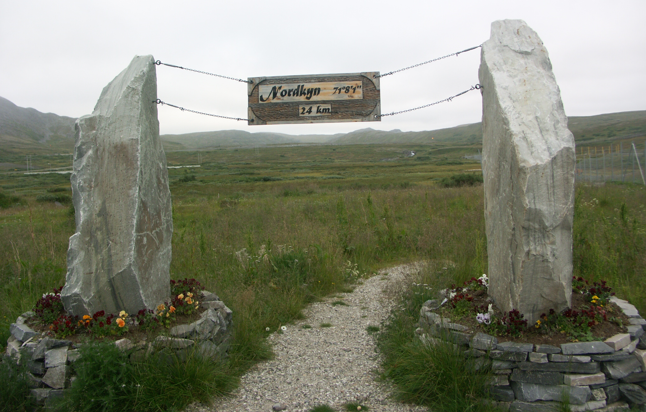 Kinnarodden 'trail' signpost at Mehamn Airport, Nordkinnhalvøya, Finnmark, Norway. Opened during a ceremony by Mette-Marit (the princess).